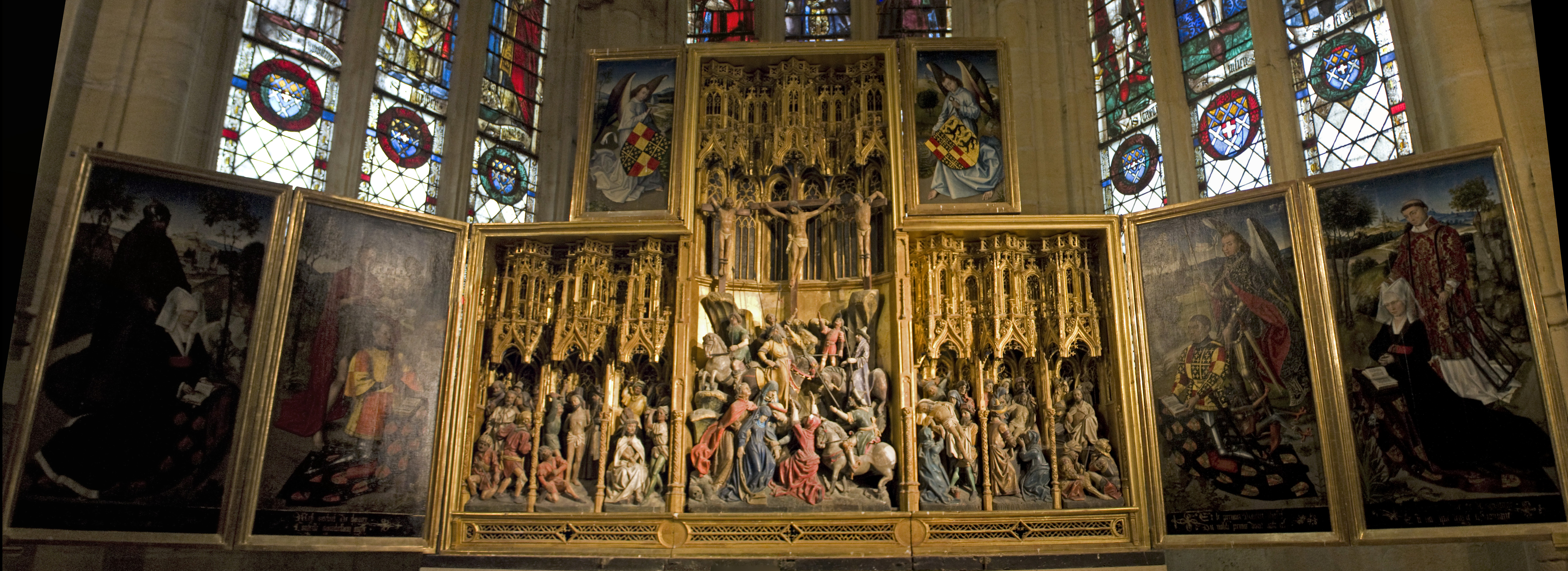 Altarpiece of the Passion by the Master of Ambierle who could be Rogier van der Veyden.